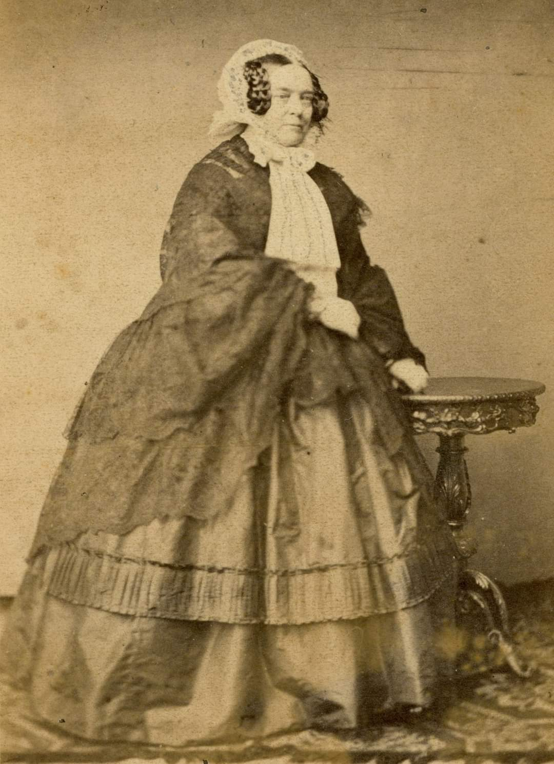 Princess Marie of Hesse-Kassel (1796-1880), granduchess of Mecklemburg-Strelitz